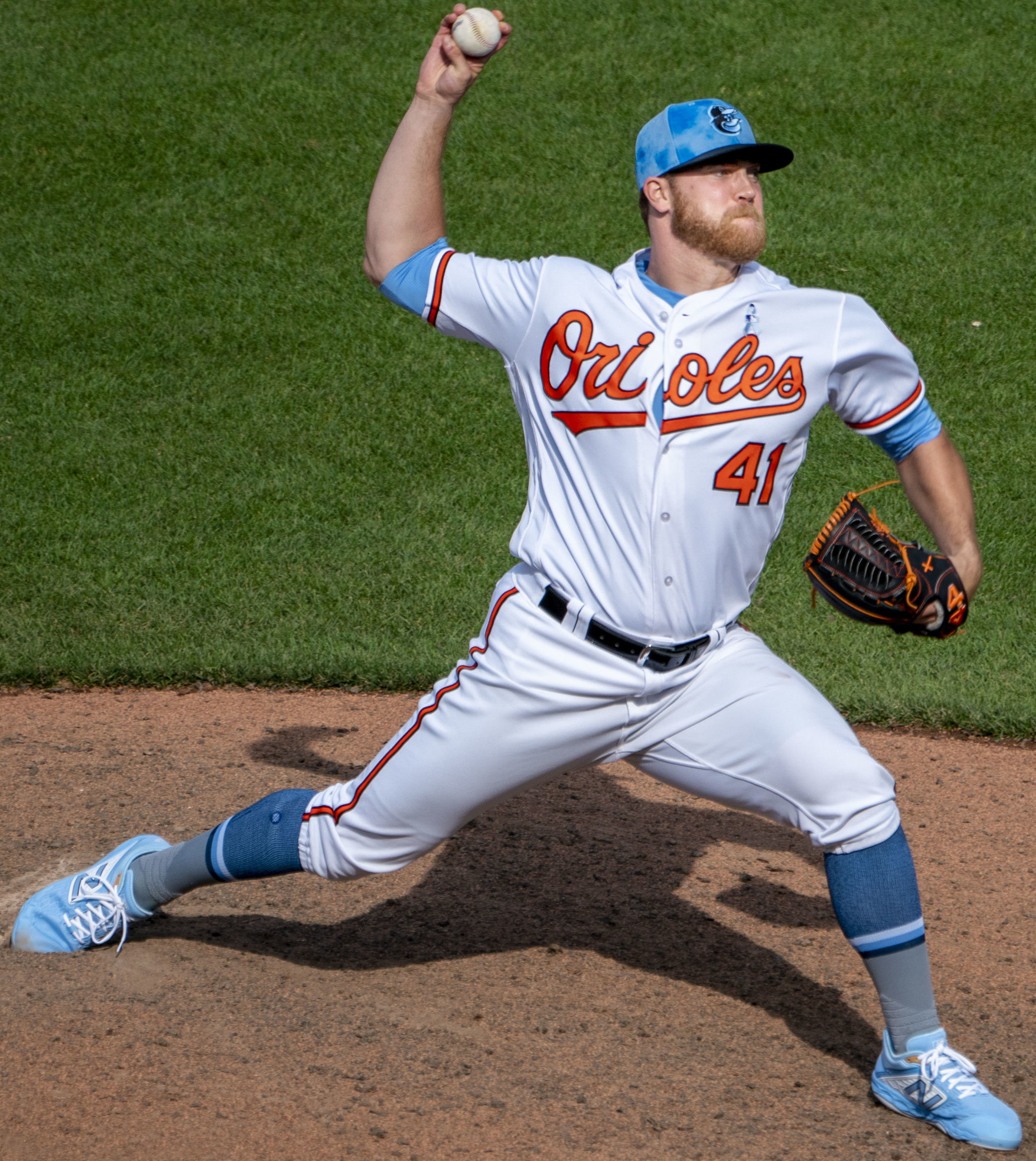 Red Sox at Orioles 6/16/19